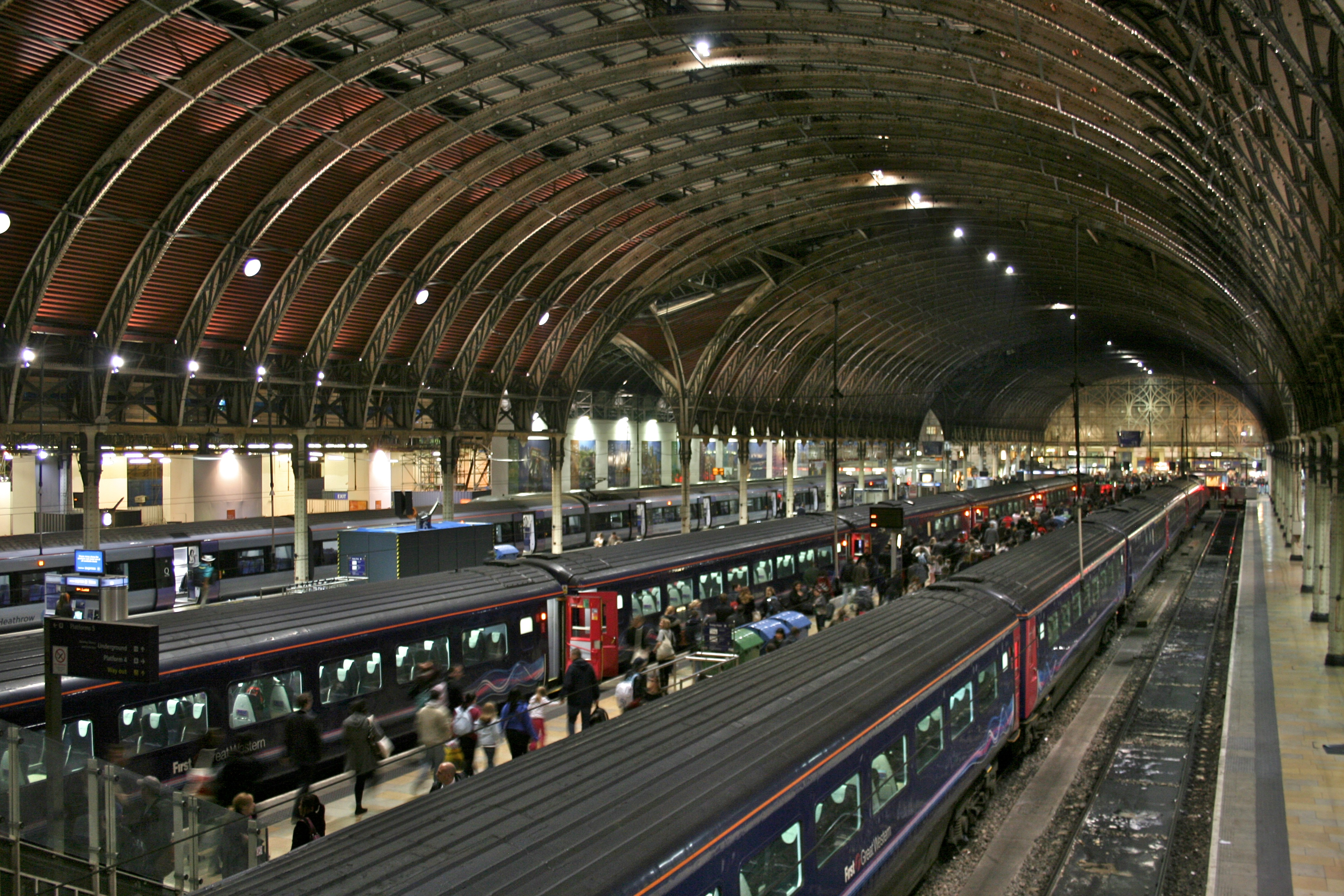 The insides of Paddington station, London.